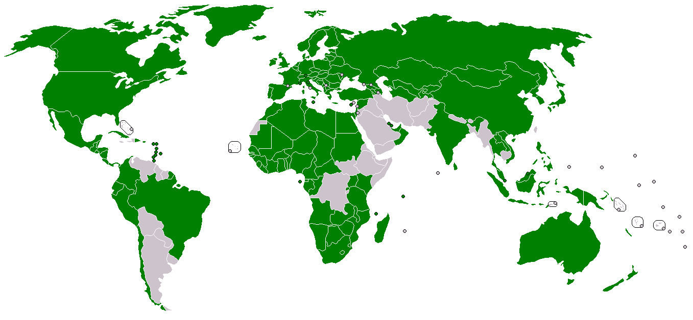 Patent Cooperation Treaty members